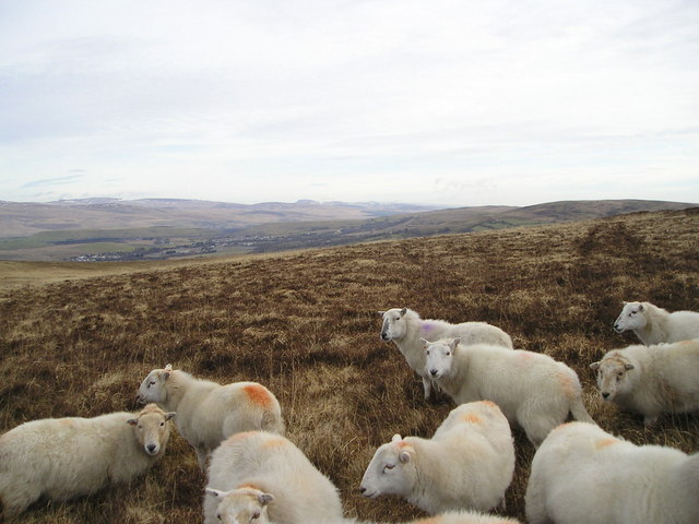 Sheep and Moorland These hardy Welsh mountain sheep can find sufficient food on the heather and tussock grass slopes of Banc Cwmhelen. Brynaman and the upper parts of the Aman Valley can be seen beyond.